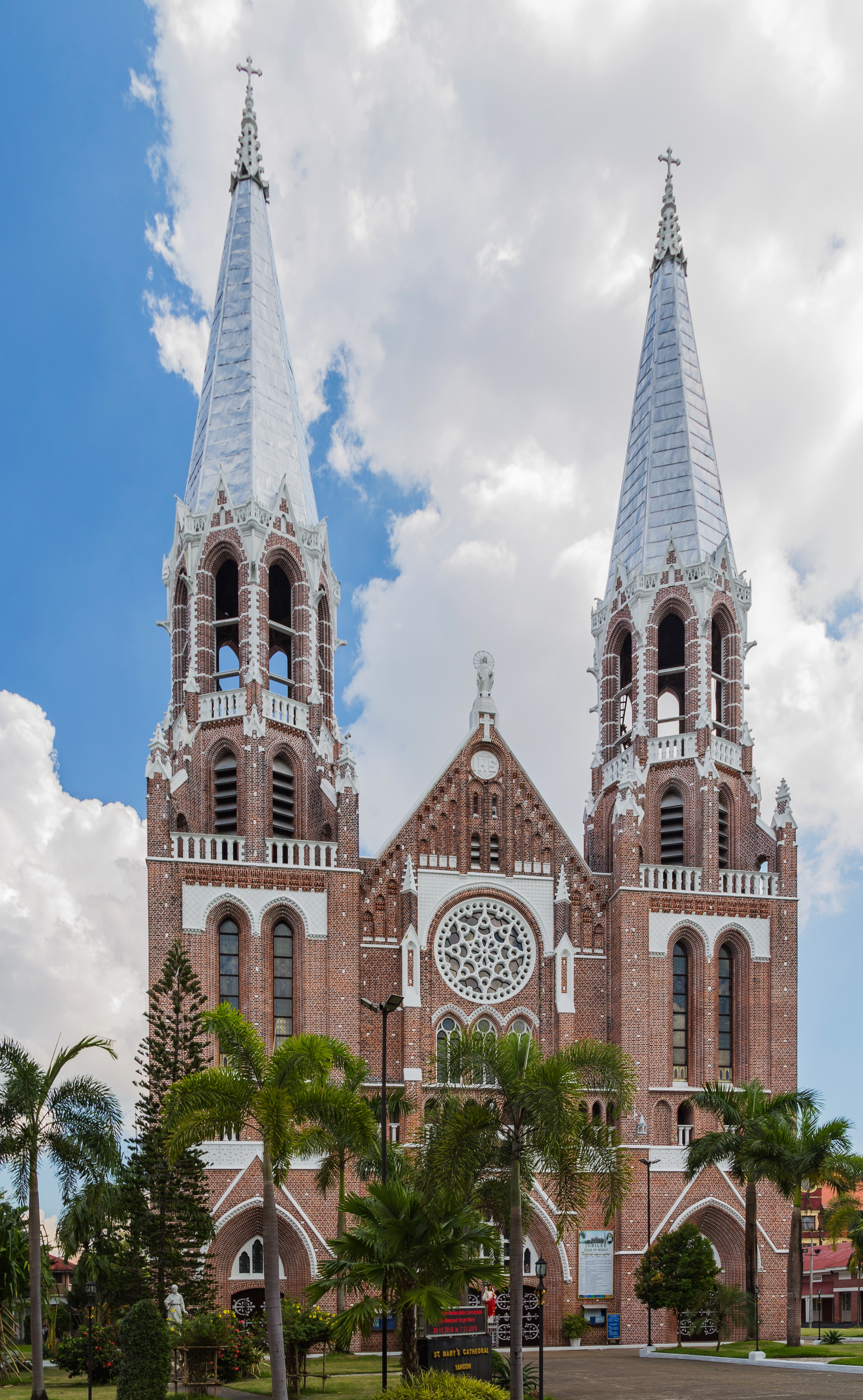 St. Mary's Cathedral. Yangon, Myanmar.